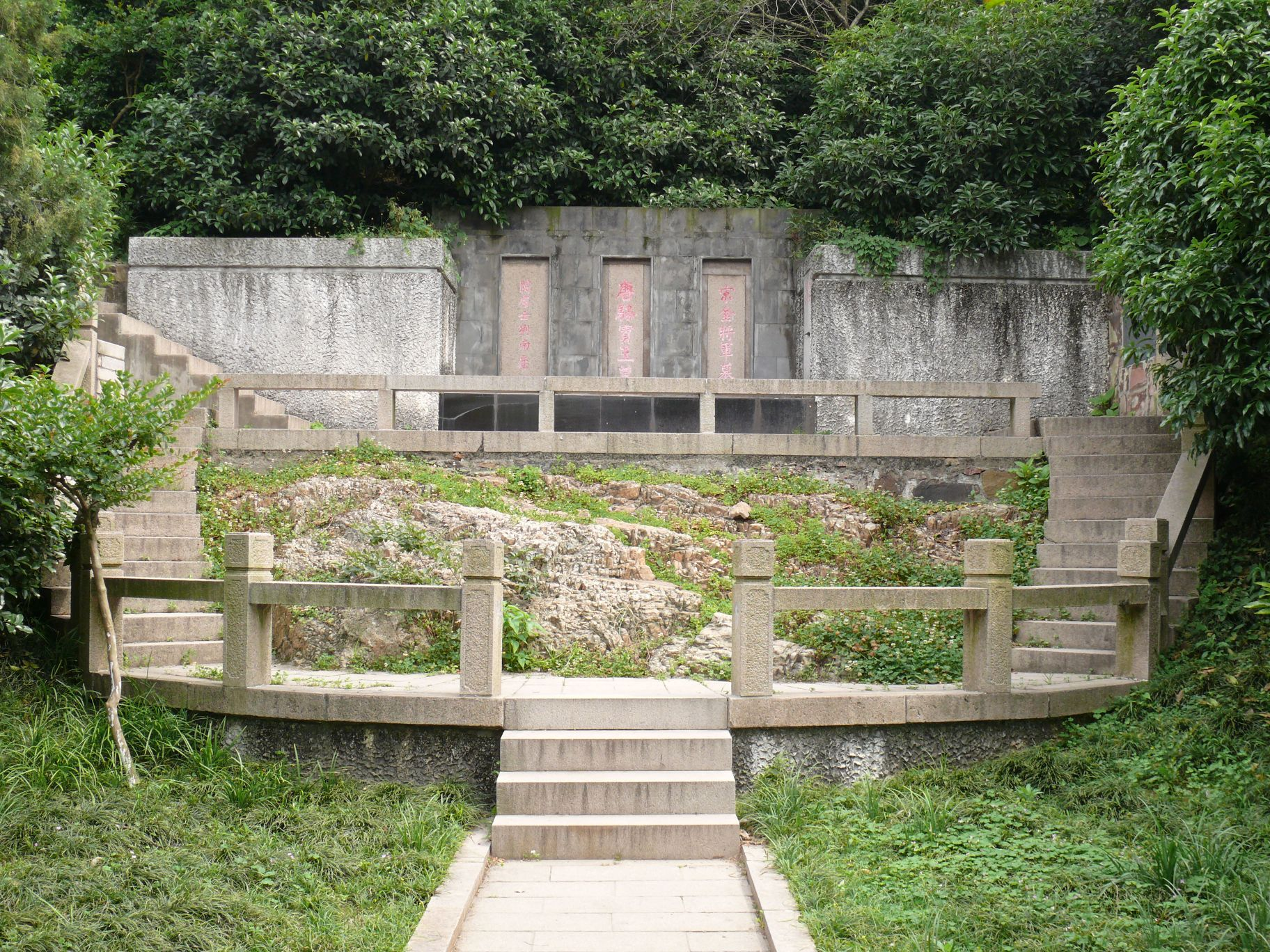 Tomb of Luo Binwang at Langshan (Nantong, Jiangsu, China).